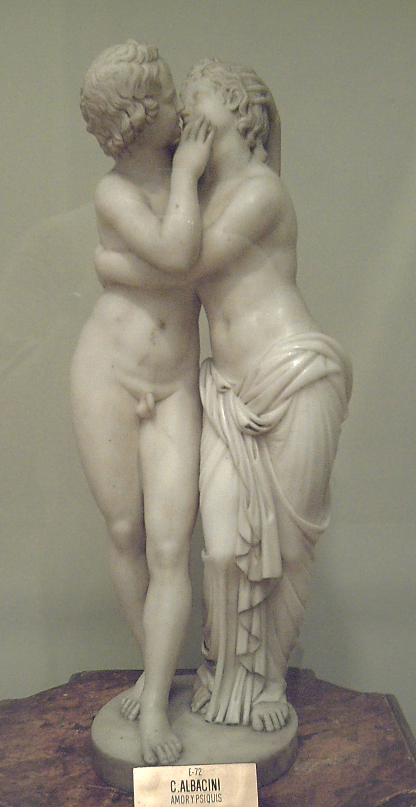 Copy of the Ancient Roman sculpture at the Capitoline Museums in Rome (MC0408).